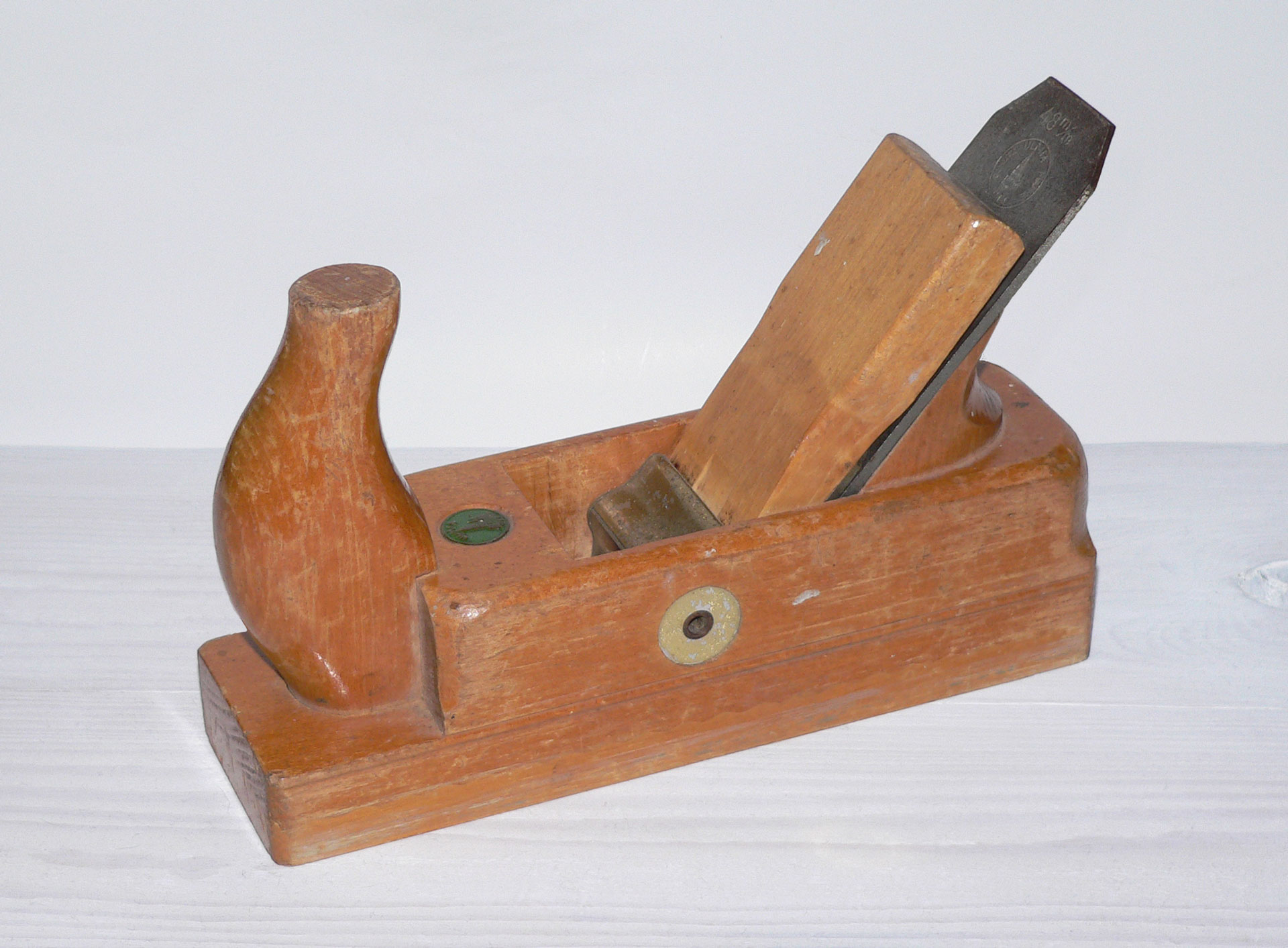 Traditional german smoothing plane produced by Ulmia.